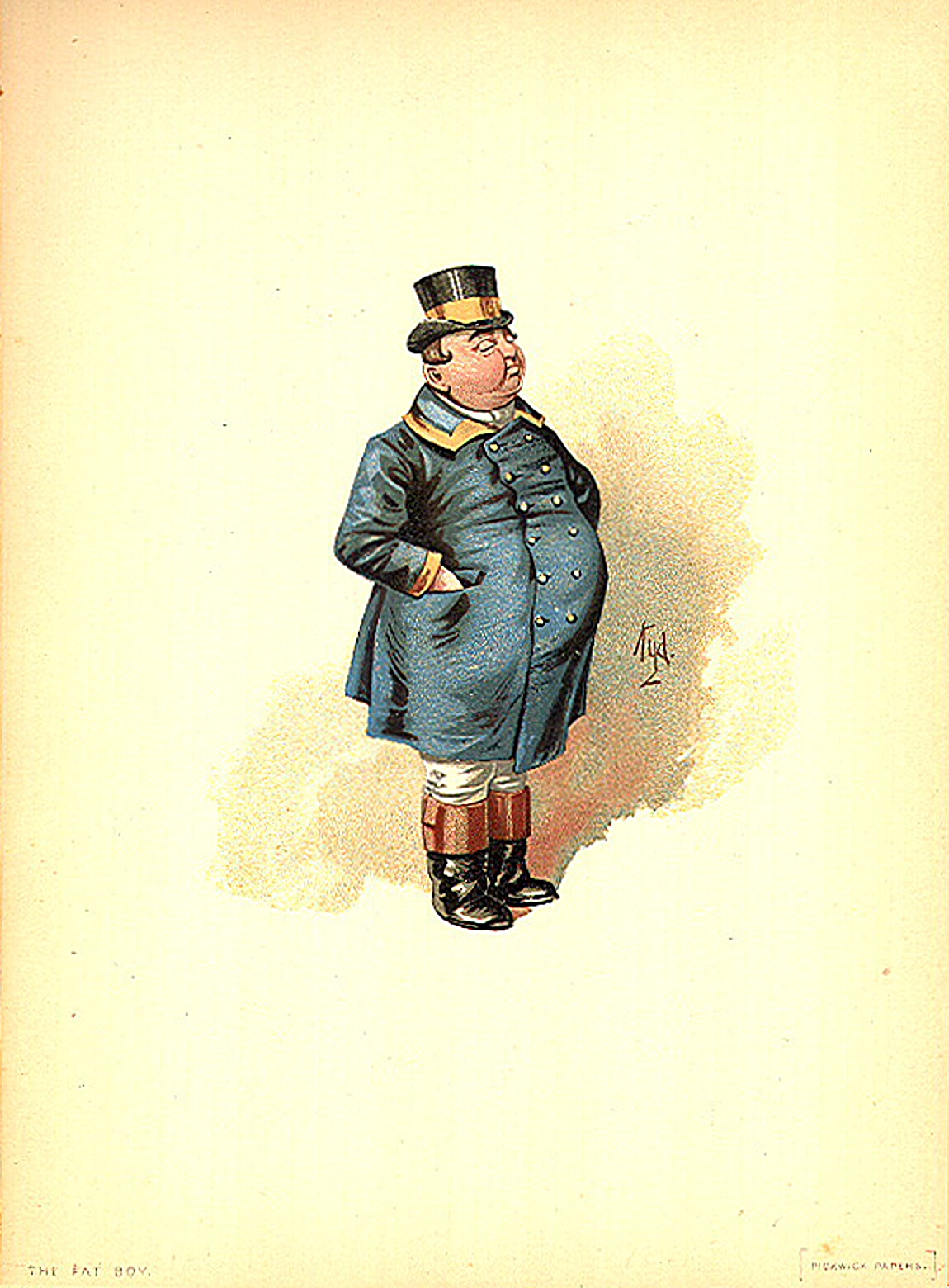 From "Character Sketches from Charles Dickens, Pourtrayed by Kyd", or "The Characters of Charles Dickens Pourtrayed in a Series of Original Water Colour Sketches by Kyd." Scanned and archived at where it was marked as Public Domain.